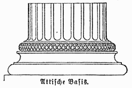 Detail of a fluted column with Attic base.